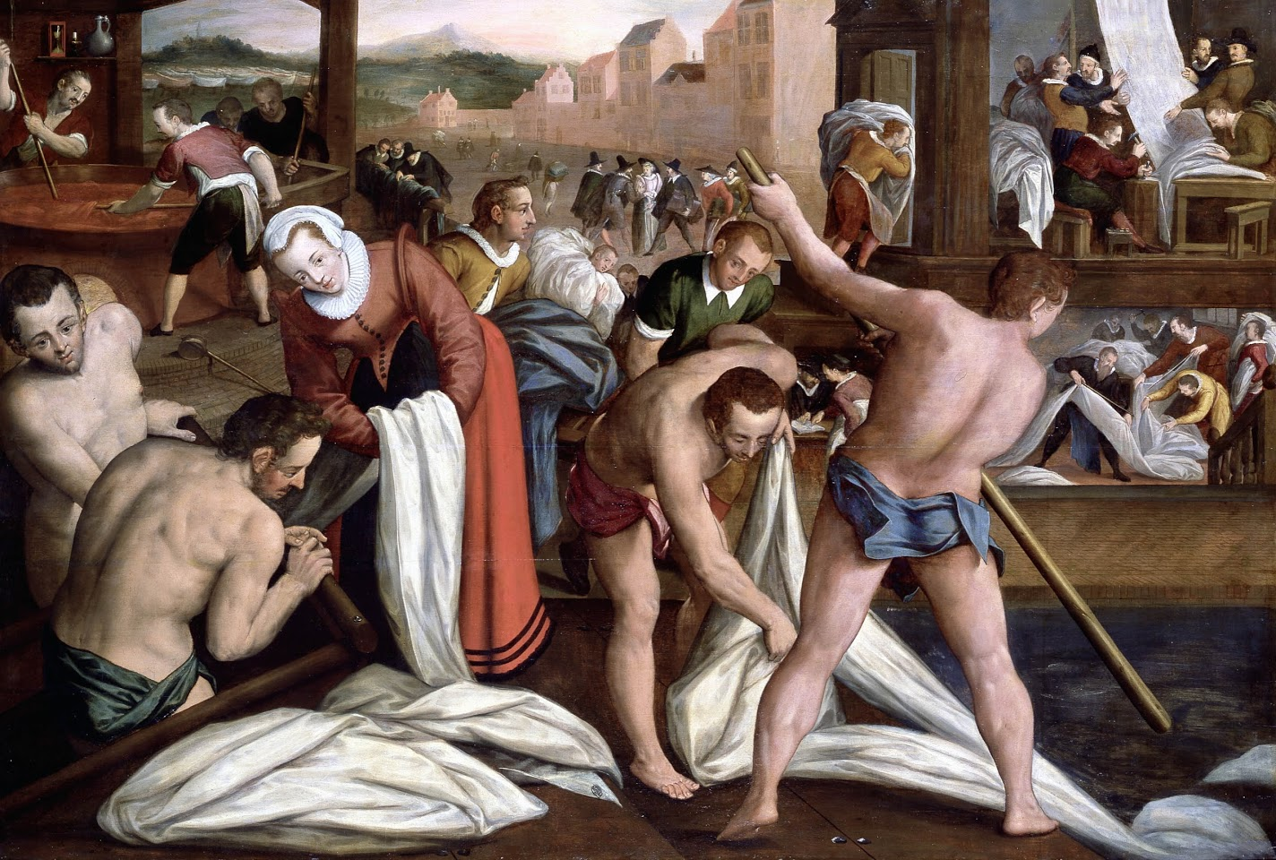 Fulling and Dyeing